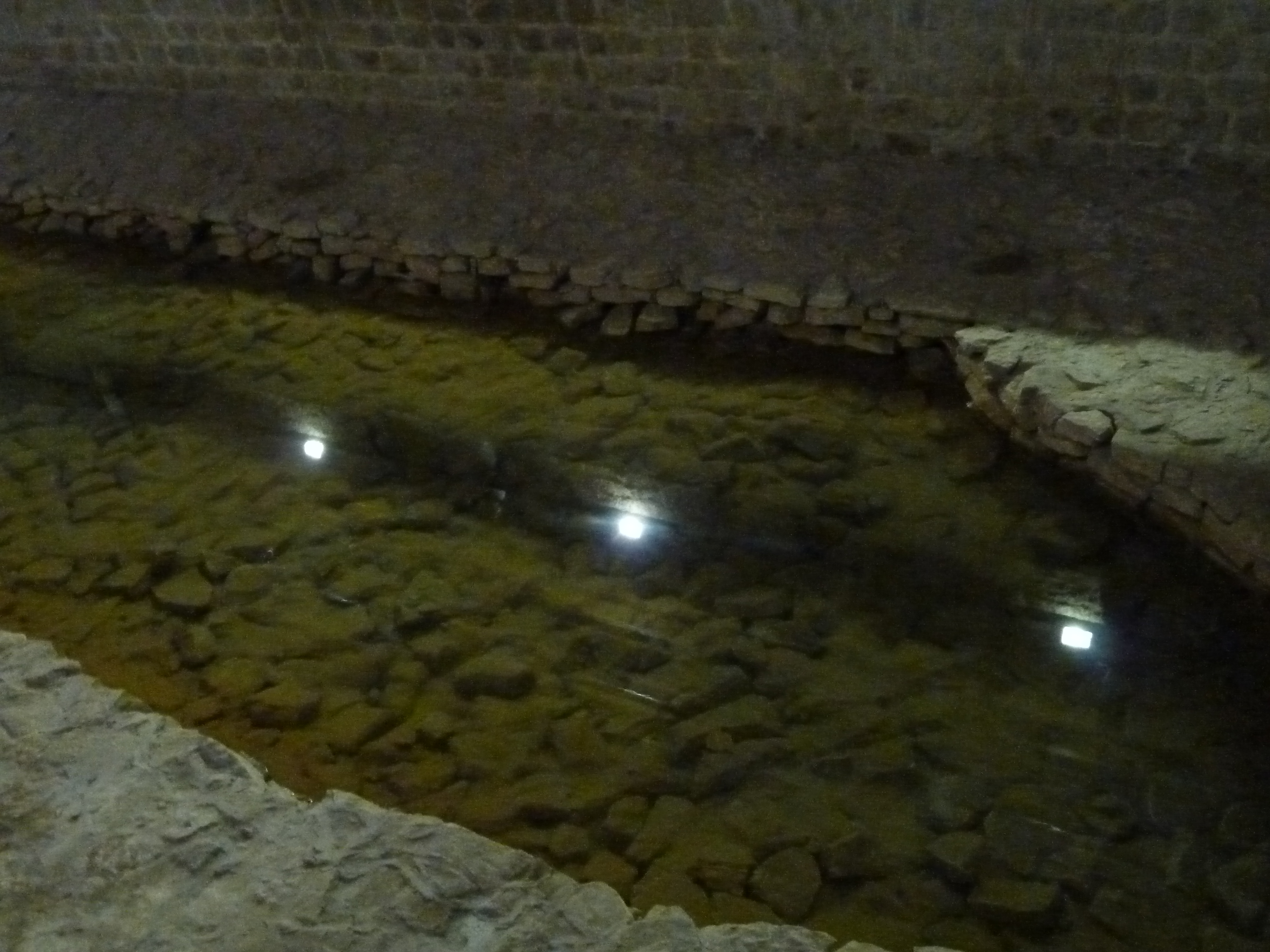 Elisha's Spring (Eliseus Spring), Ein El Sultan, Jericho